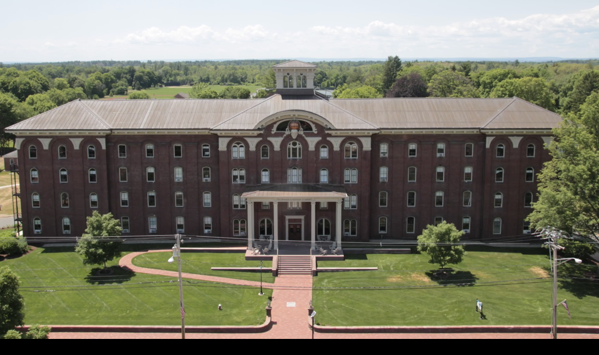 Rich Hall serves as the main administrative building on campus, and three of its floors serve as a dormitory.